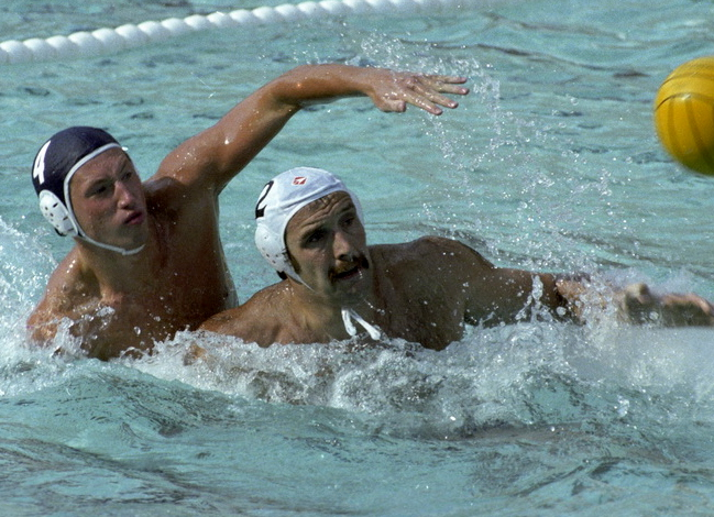 “Water polo. USSR vs. Hungary”. Moscow, V.I.Lenin Central Stadium's swimming pool, the 22nd Olympic Games. Water polo match between the national teams of the USSR and Hungary. Soviet water polo players won 5-4. Eugeny Grishin ( #4) and Istvan Szivos (#2) fighting for a ball.